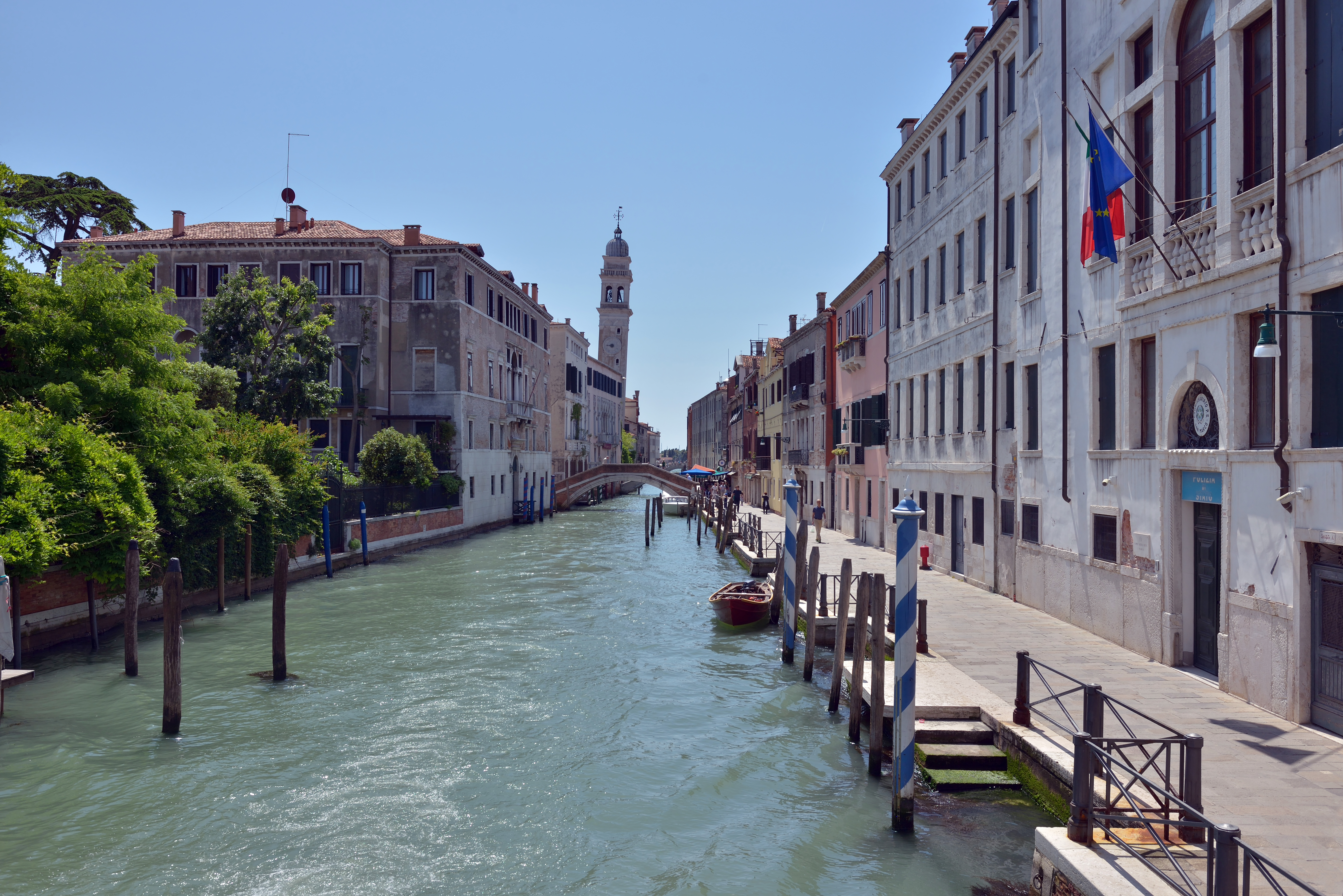 The "Rio di San Lorenzo" and the San Giorgio dei Greci church with the leaning tower in Venice.